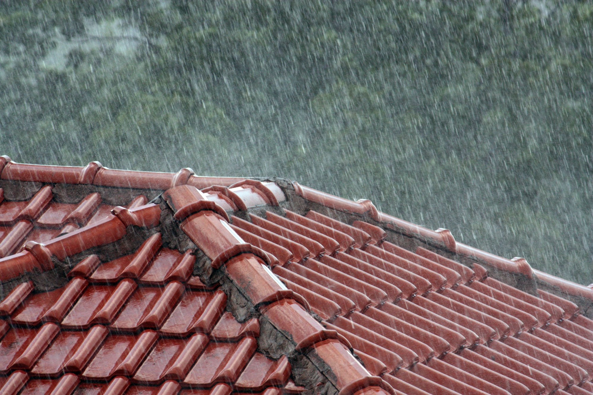 Torrential rain on Thassos island, Greece.